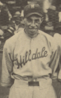 Red Ryan at the 1924 Colored World Series. LOC states here that there are no restrictions on use of this image, therefore it is PD. This file has been extracted from another file: 1924 Negro League World Series.jpg